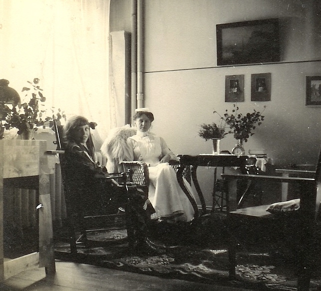 Karin Neuman-Rahn and her niece Lisbeth